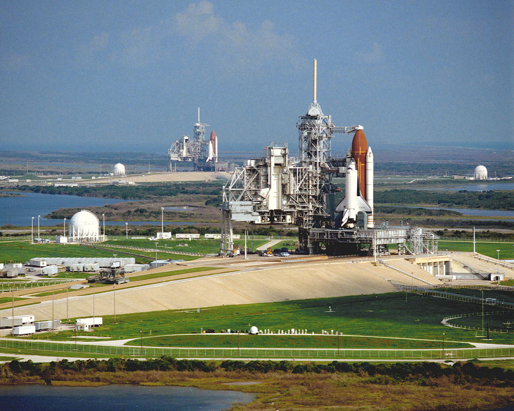 Space Shuttle Columbia rests on Pad 39A during the troubled summer of 1990. Discovery is in the background on Pad B awaiting launch on STS-41.